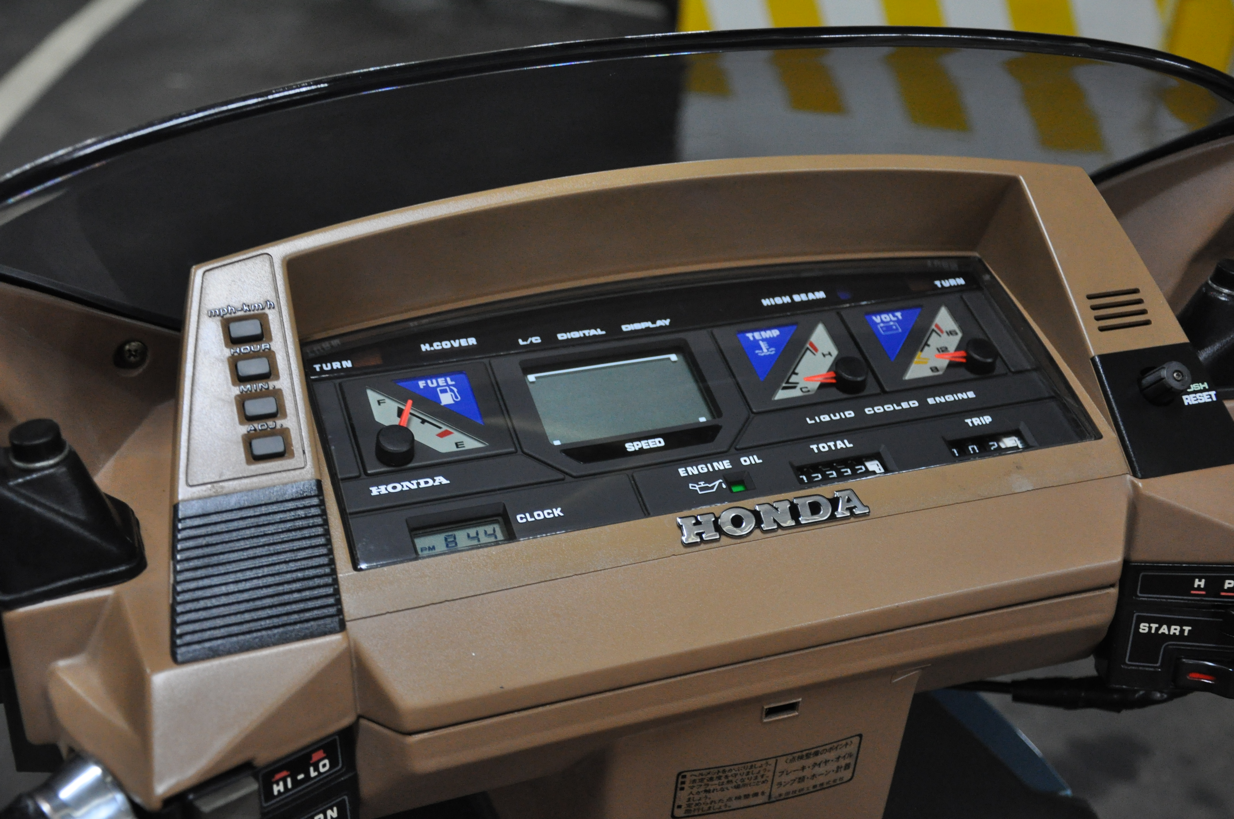 including a crystal digital instrument cluster and voltmeter, temperature, fuel guage.